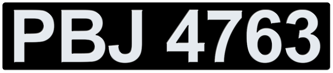 License Plate of Trinidad & Tobago